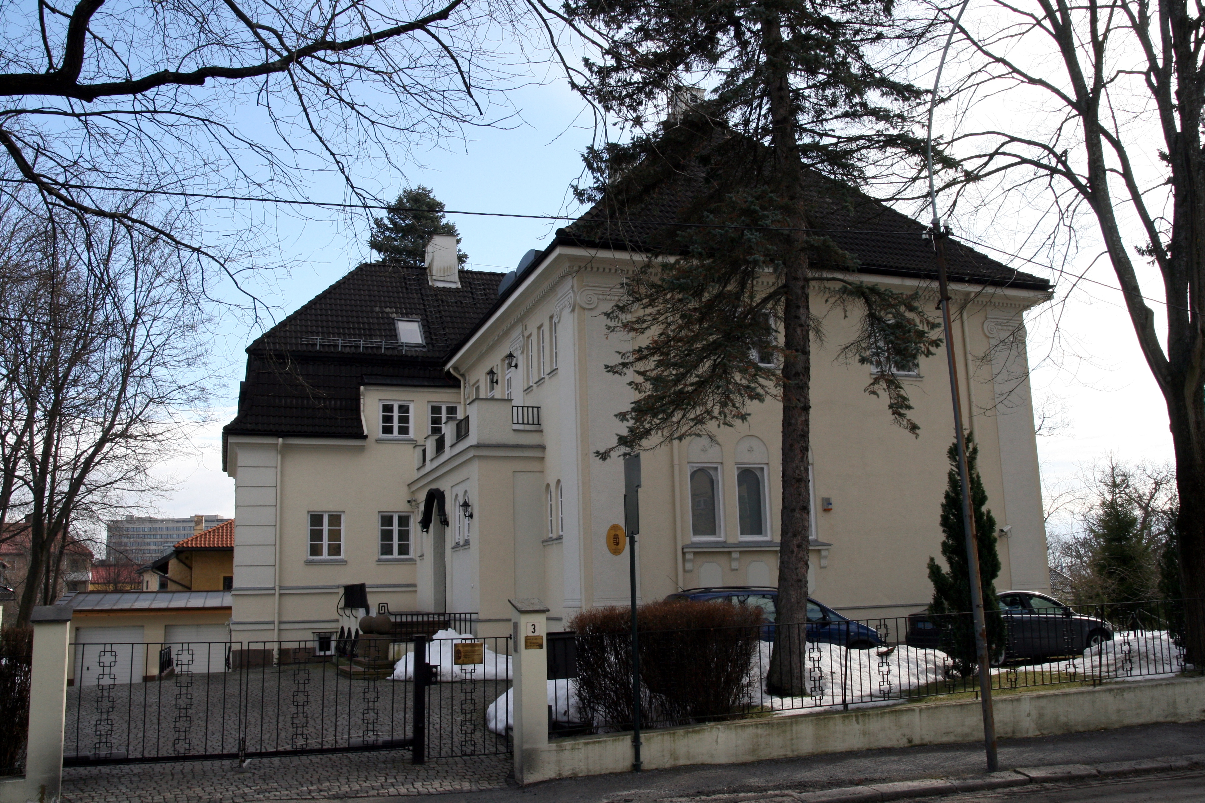 Hungarian embassy, Oslo.